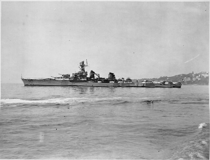 Photograph of French cruiser FFS GLOIRE, in dazzle camouflage, with ship's company on deck saluting King George VI as he passed by in the anchorage at Naples.